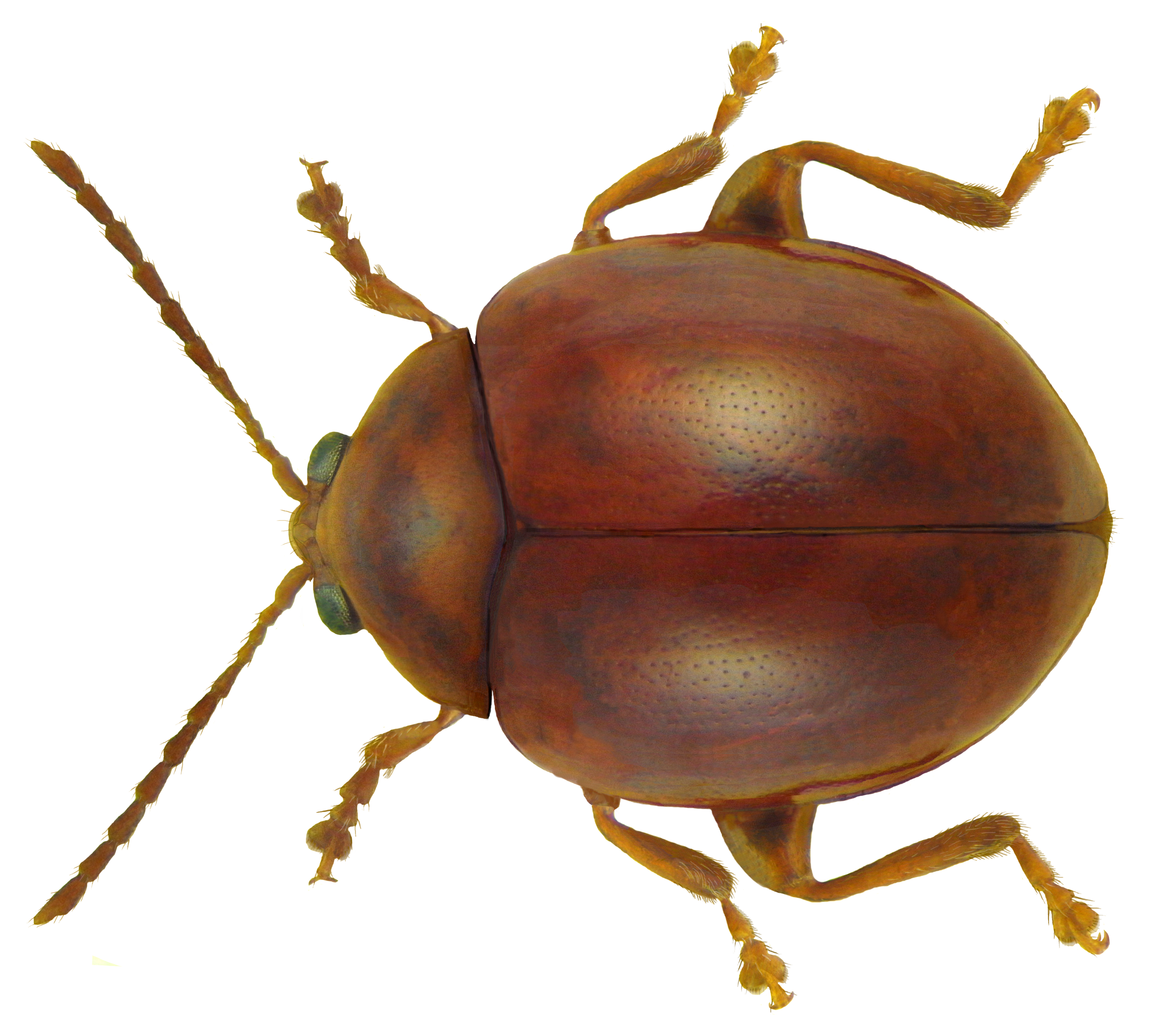 Family: Chrysomelidae Size: 2.8 to 4.0 mm Origin: Europe Ecology: in various composites, preferably on Centaurea species Location: Corsica, Ghisonaccia, Tour de Vignale leg.det. U.Schmidt, 15.VI.1973 Photo: U.Schmidt, 2011